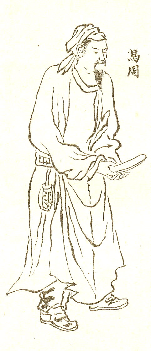 Ma Zhou（馬周）was a politician in China of Tang Dinasty